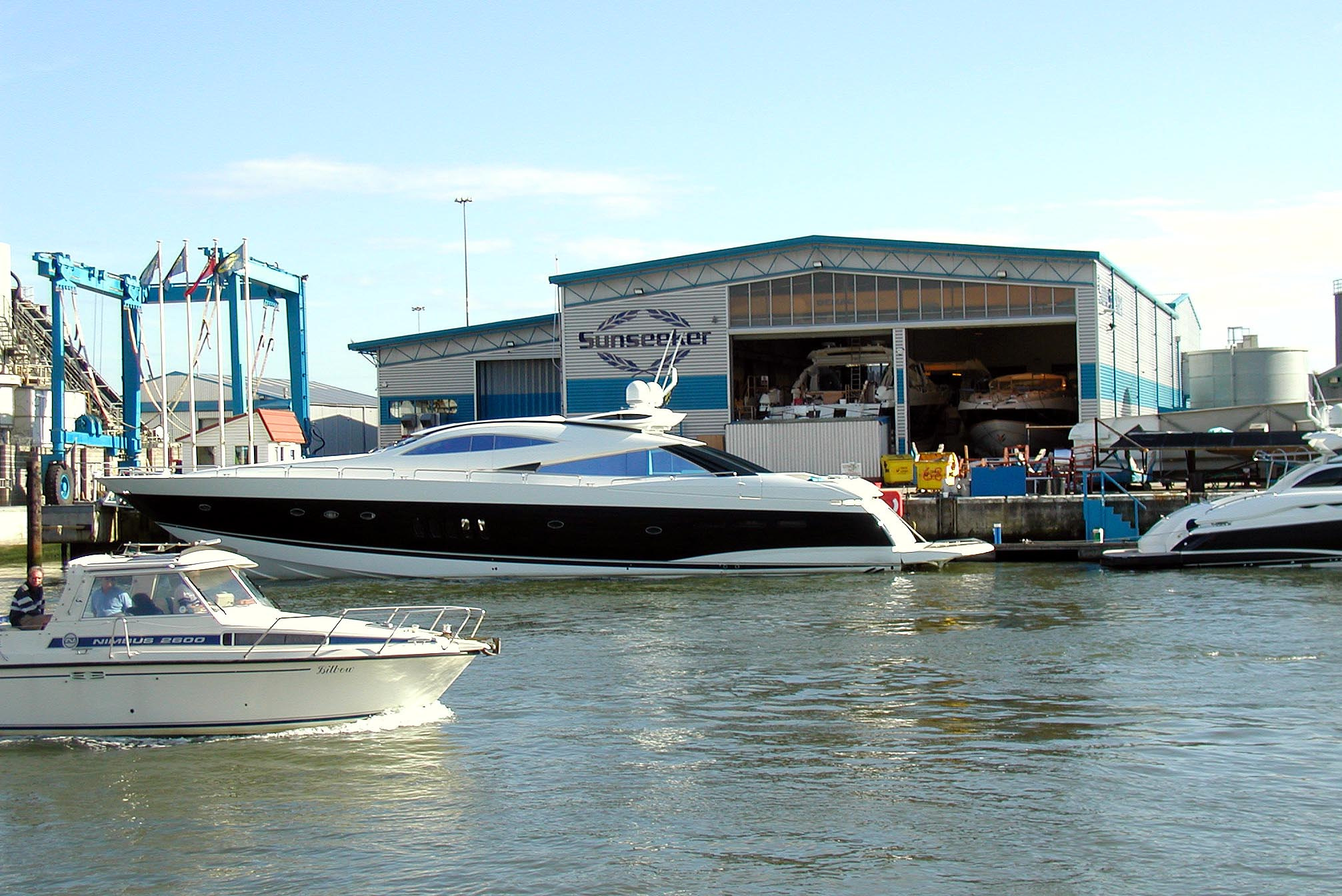 The Sunseeker boat building yard at Poole. The company makes luxury motor yachts. Taken by Adrian Pingstone in July 2002 and released to the public domain.